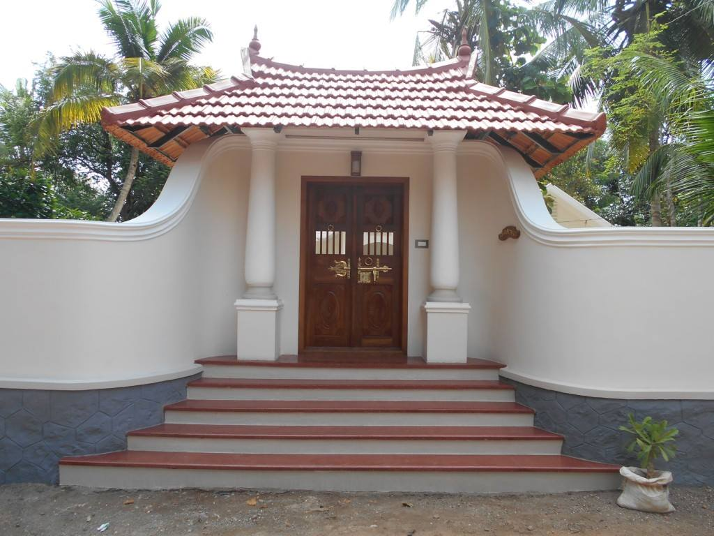 Padipura Saradas Vazhappally Changanassery